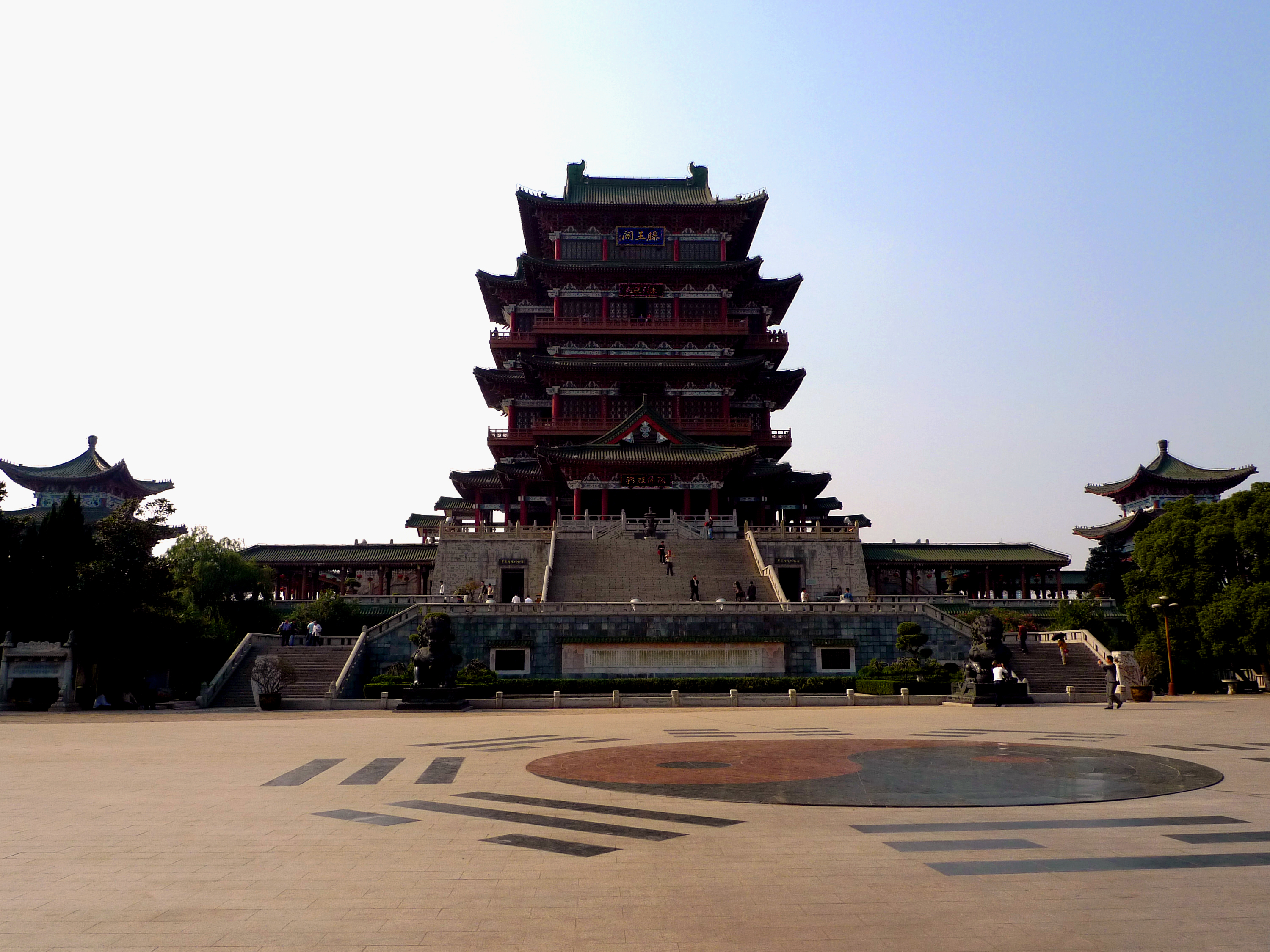 Pavilion of Prince Teng full view